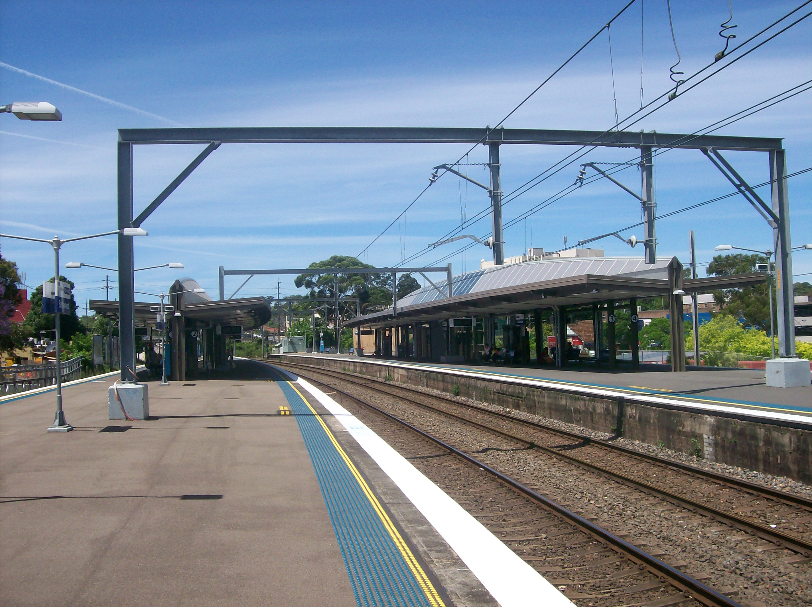 Eastwood railway station